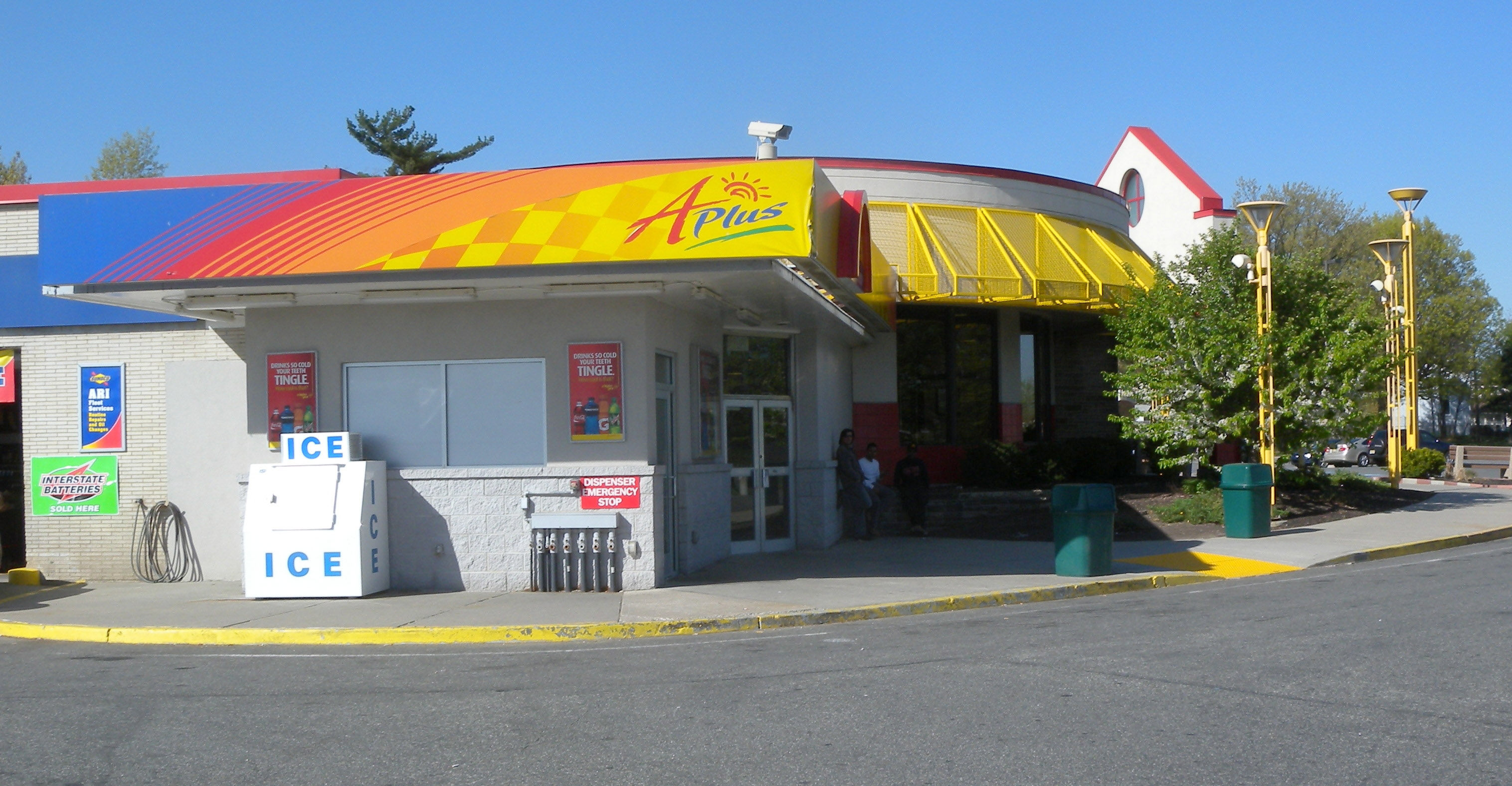 Looking north at A-Plus Store in Alexander Hamilton Plaza on a sunny early afternoon.